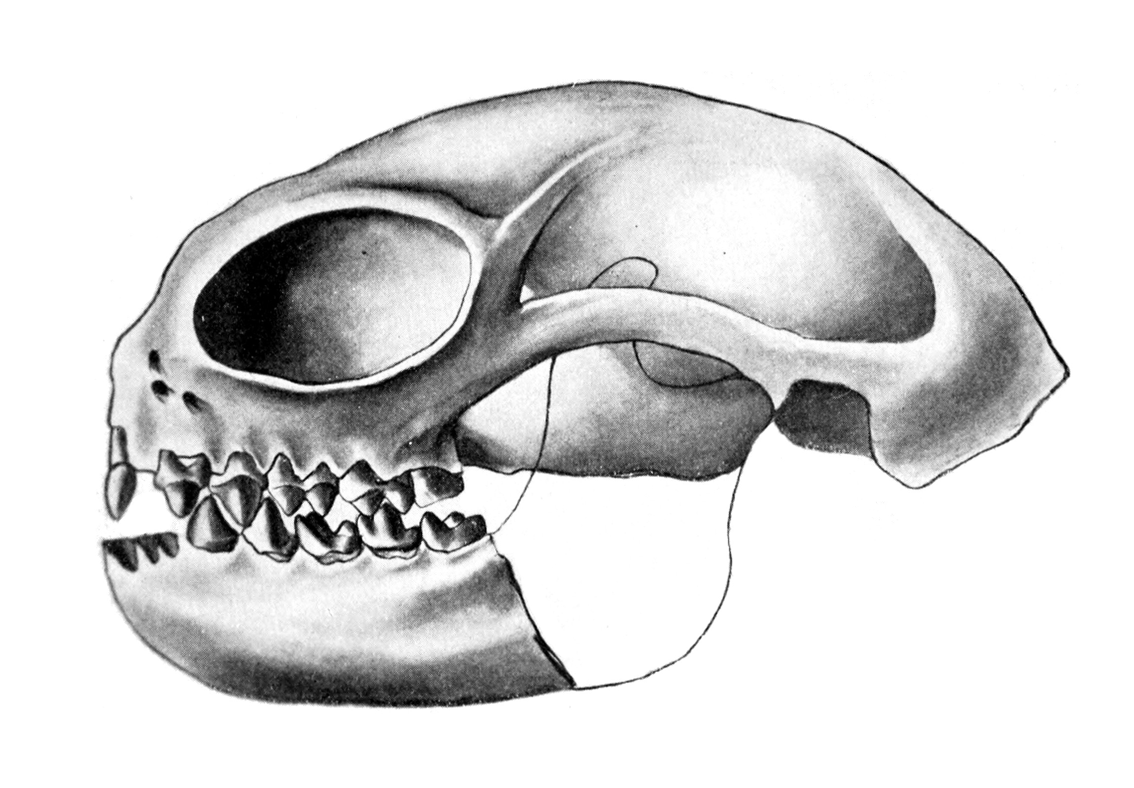 The skull of Anaptomorphus from the American Museum of Natural History.